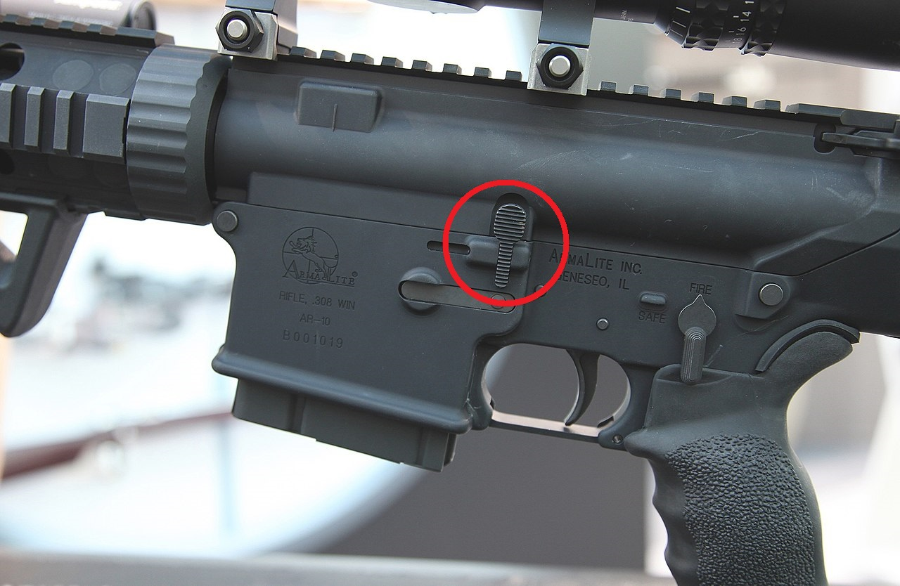 I added the red circle to highlight the bolt release of an AR-10. See "source" for a link to the original image.